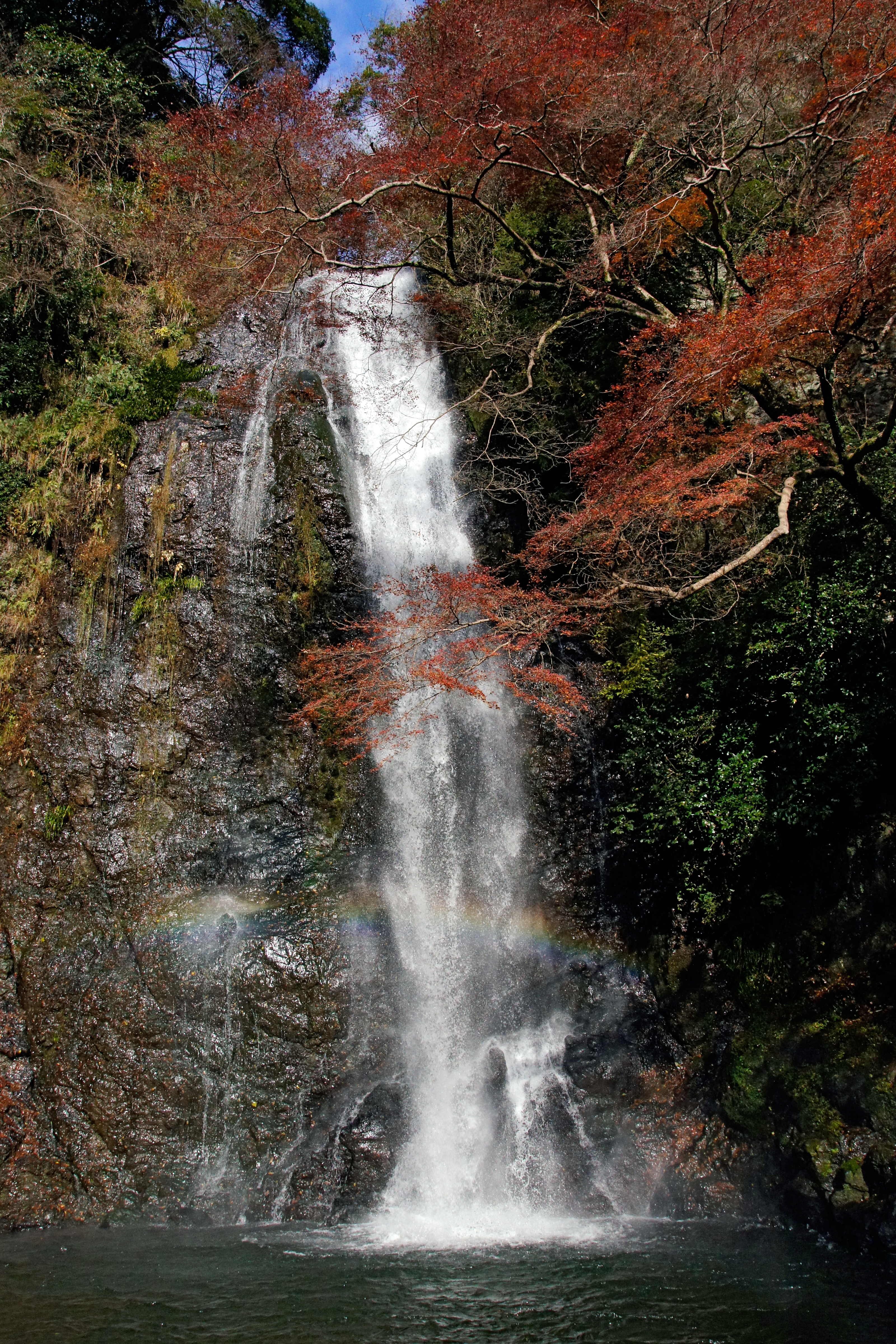 Minoh Falls in Minoh, Osaka prefecture, Japan